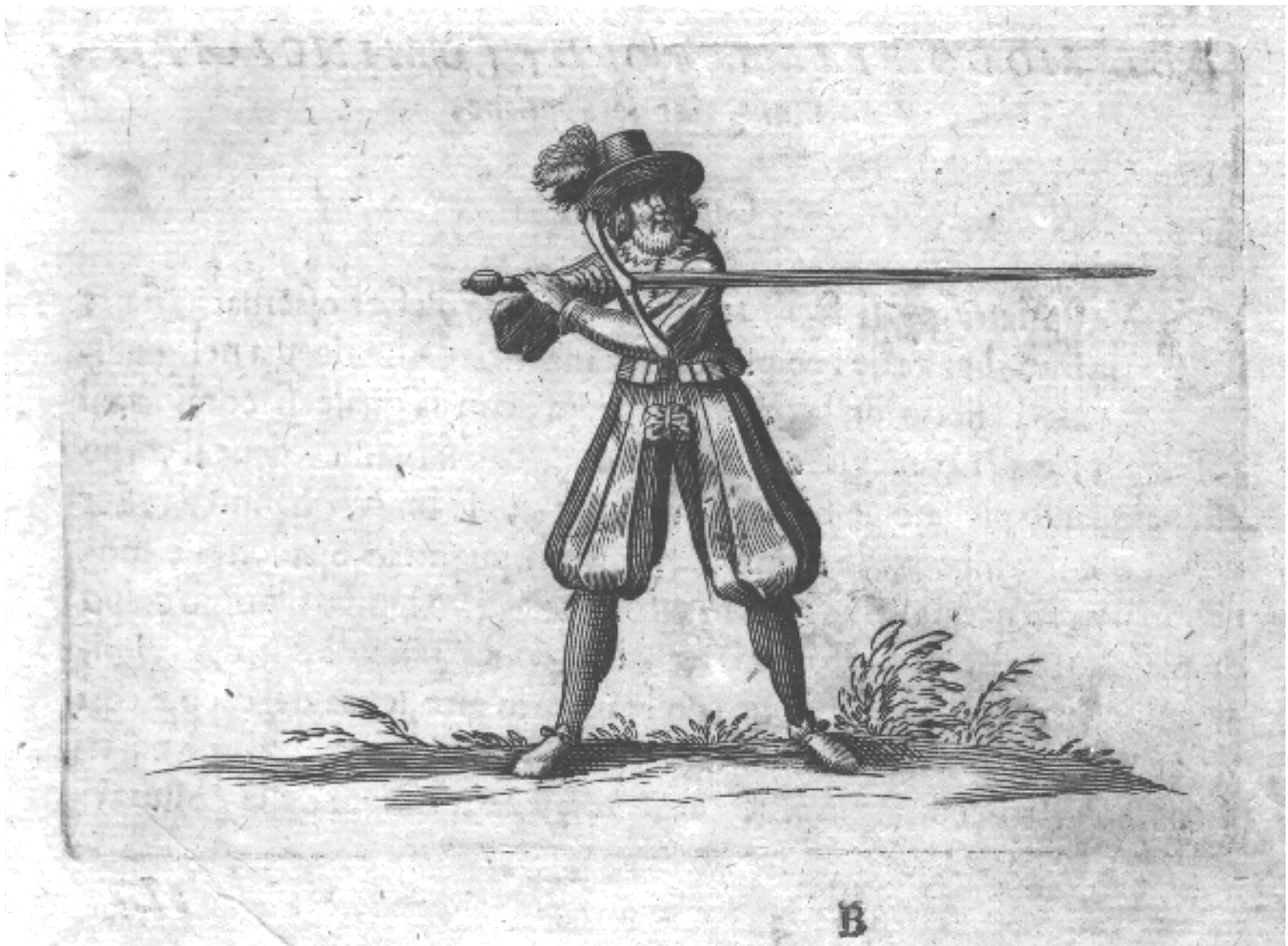 Об использовании наконечника и нанесении режущих ударов с спадоне